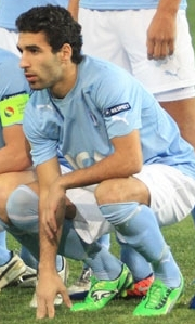 Jimmy Durmaz of Malmö FF